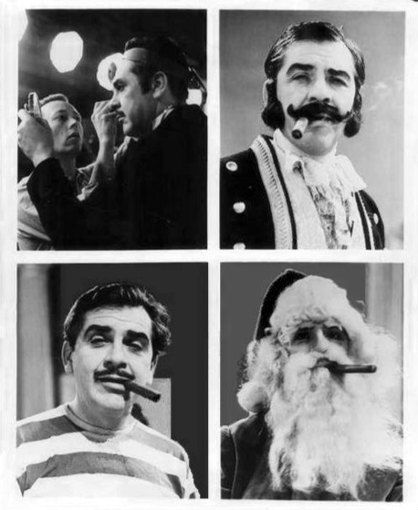 Photo of Ernie Kovacs getting into makeup and also in full makeup for three of the many characters he portrayed in the television program The U.S. Steel Hour. This presentation was called "Private Eye-Private Eye". Kovacs is shown as a butler (upper right), a skin diver (lower left), and Santa Claus (lower right).